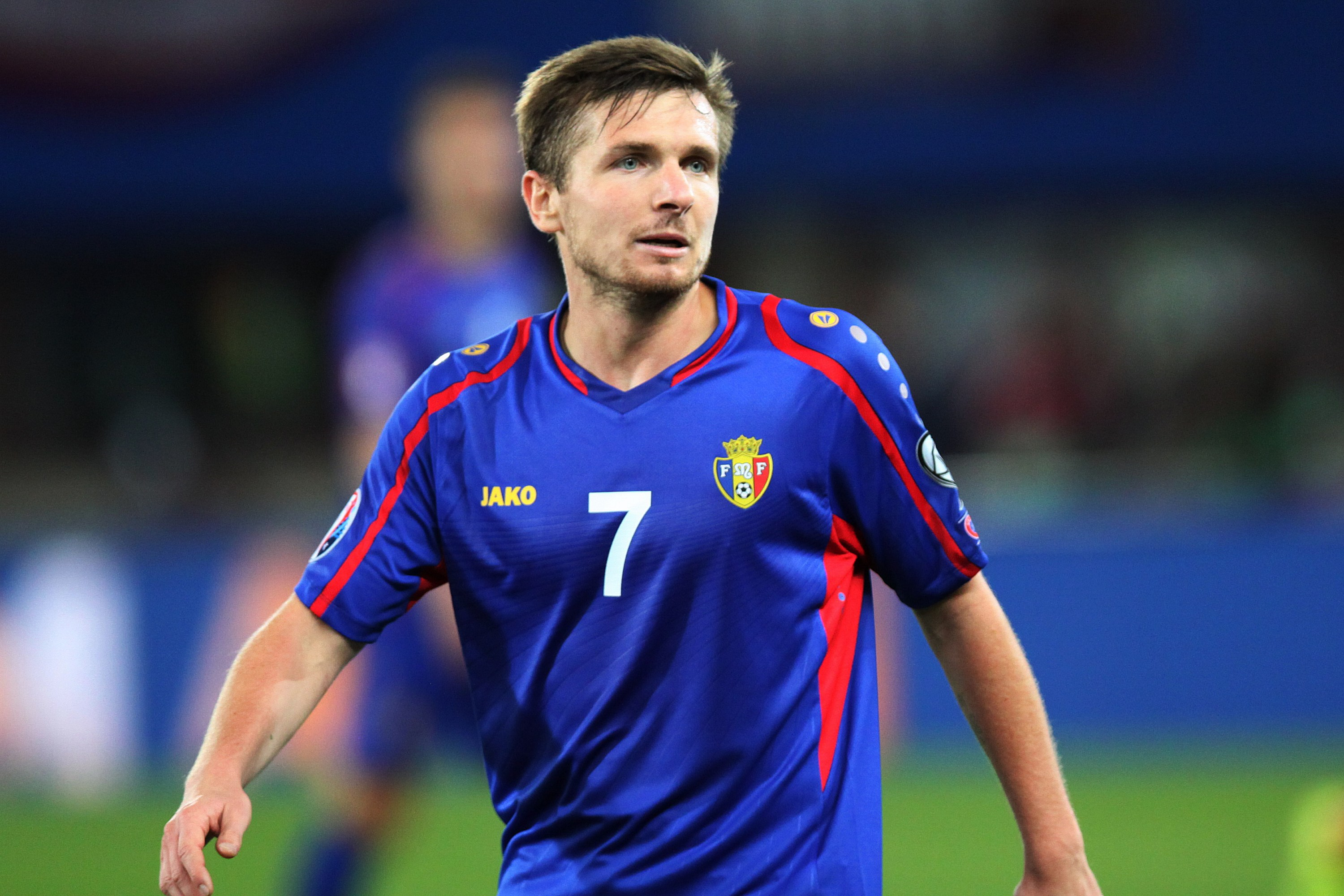 UEFA Euro 2016 qualifying, Group G – Austria national football team (red shirts) vs. Moldova national football team (blue shirts) on 2015-09-05 in Ernst-Happel-Stadion, Vienna: The photo shows Andrei Cojocari